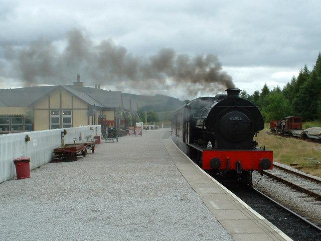 Bolton Abbey Station 68005 leaving Bolton Abbey with a train for Embsay on the Yorkshire Dales Railway.